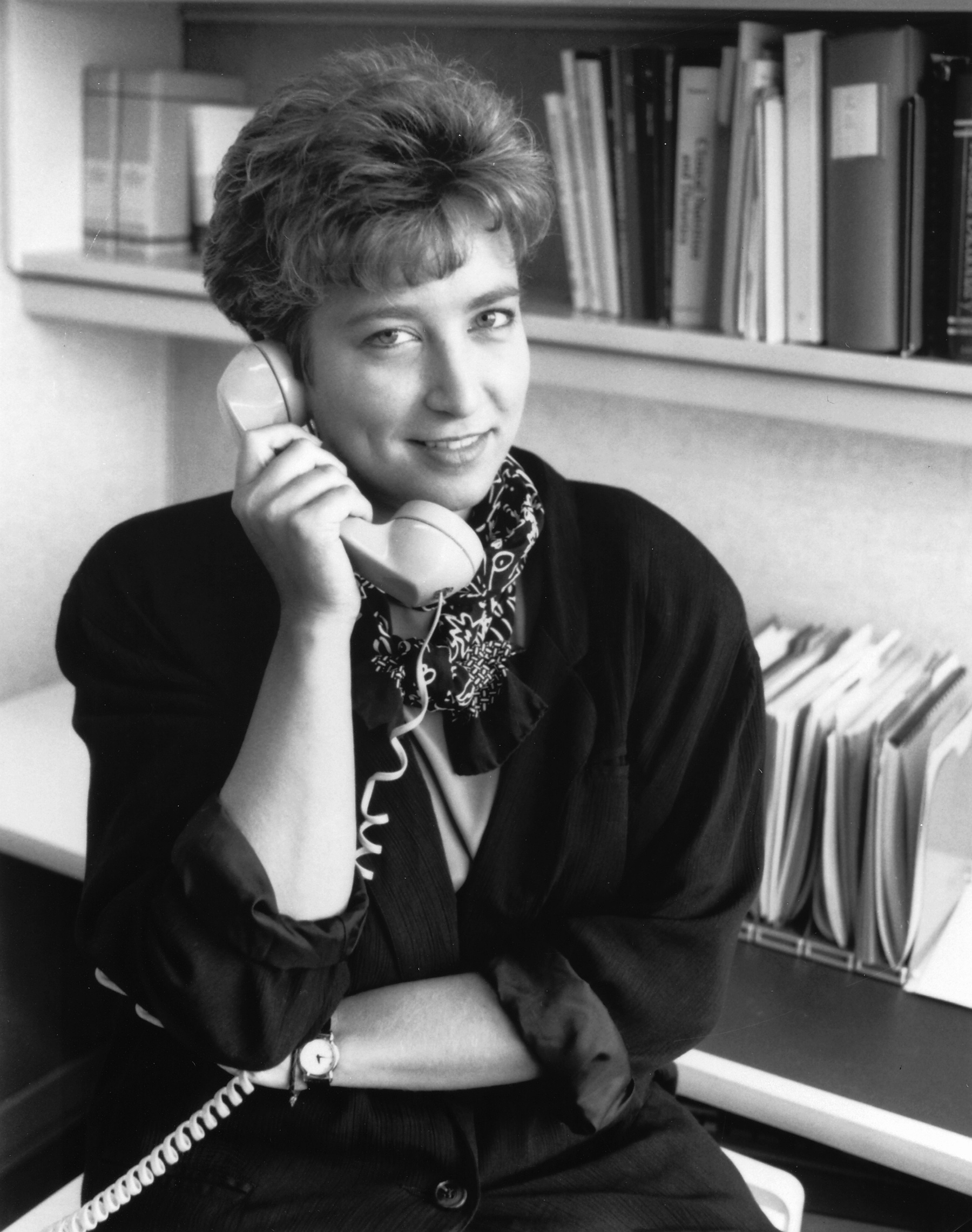 Title Woman Talking on the Phone Description A young, professional, Caucasian woman sits on the edge of an office desk talking on the phone. Topics/Categories People -- Adult People -- Health Professional Type B&W, Photo Source National Cancer Institute